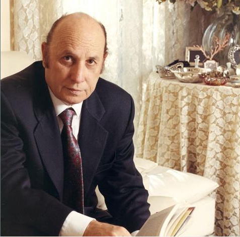 picture of my father. granted to IT WIKI under commes GNU licence. granted to ES WIKI under same terms for free use